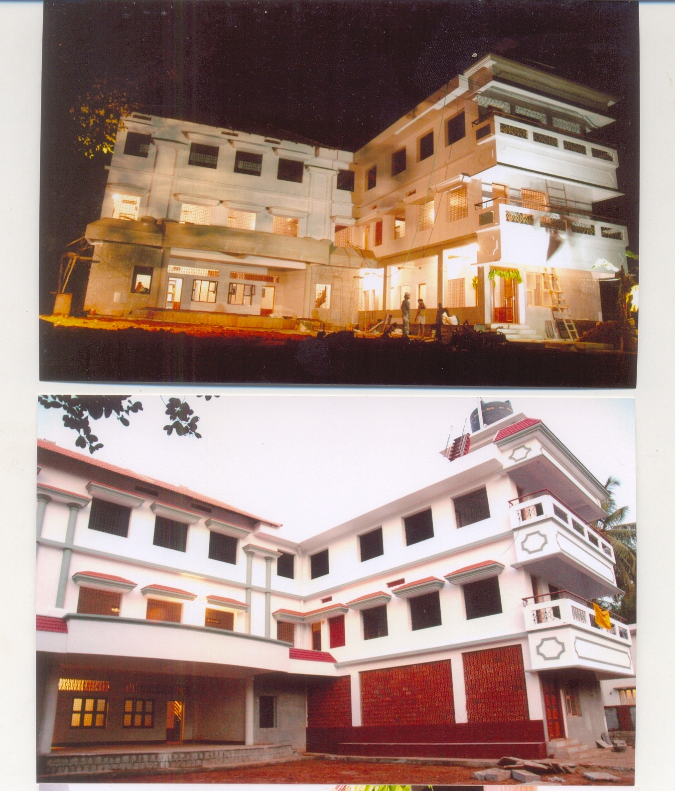 Yakshagana Kendra, Udupi Building